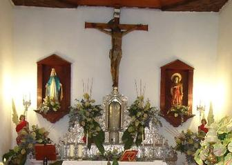 Altar de la Iglesia de San Andrés Apóstol en Tenerife.